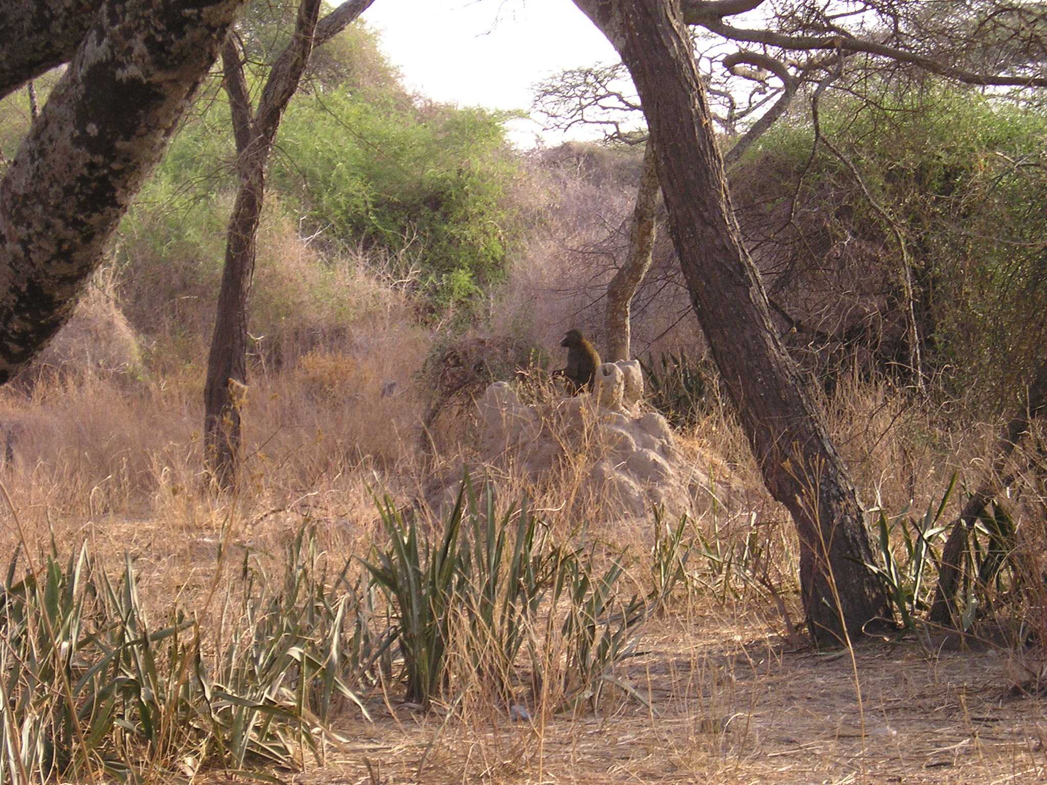 Pavian, Monkey at Langano Lake, Ethiopia